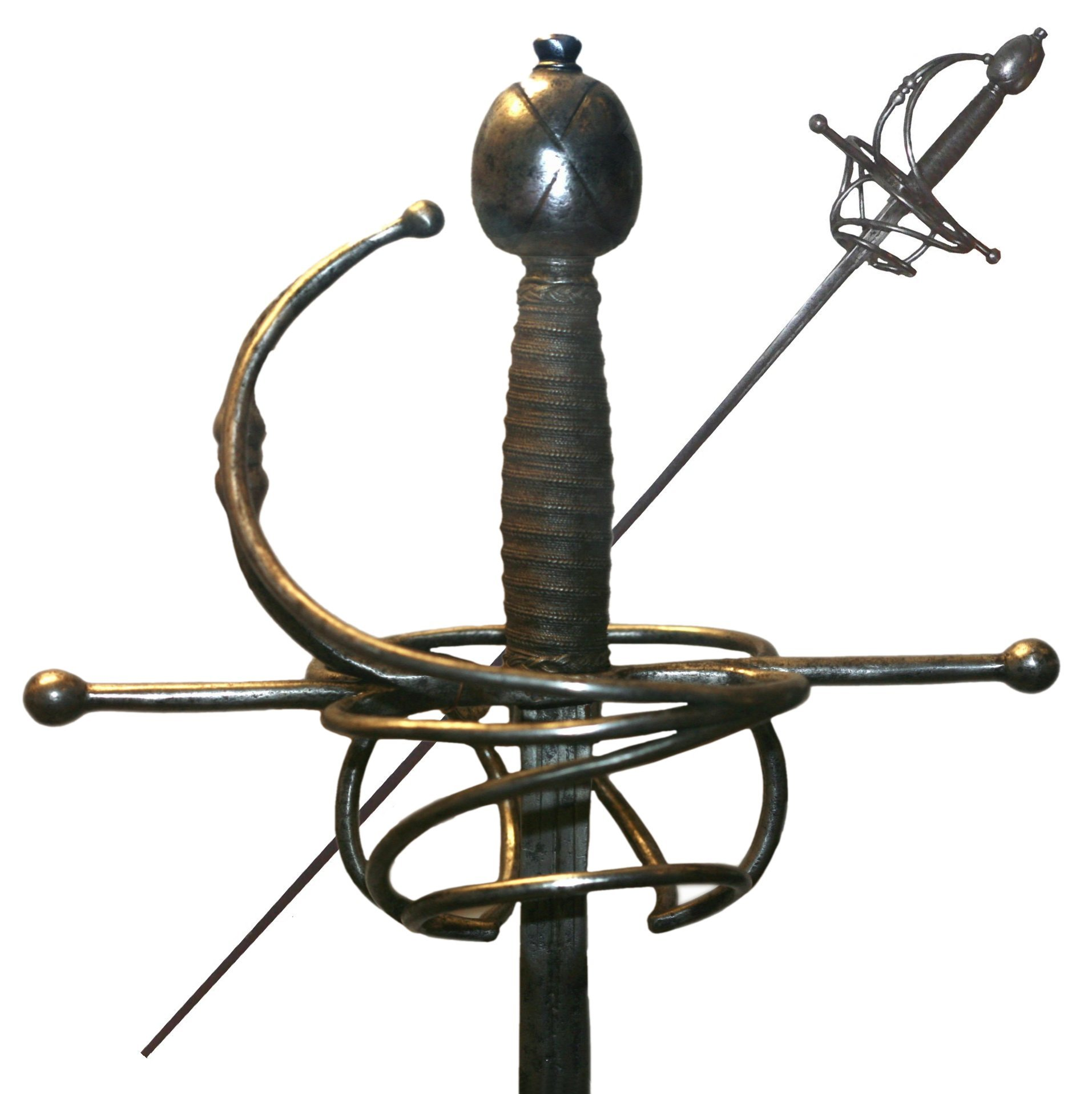 Rapier